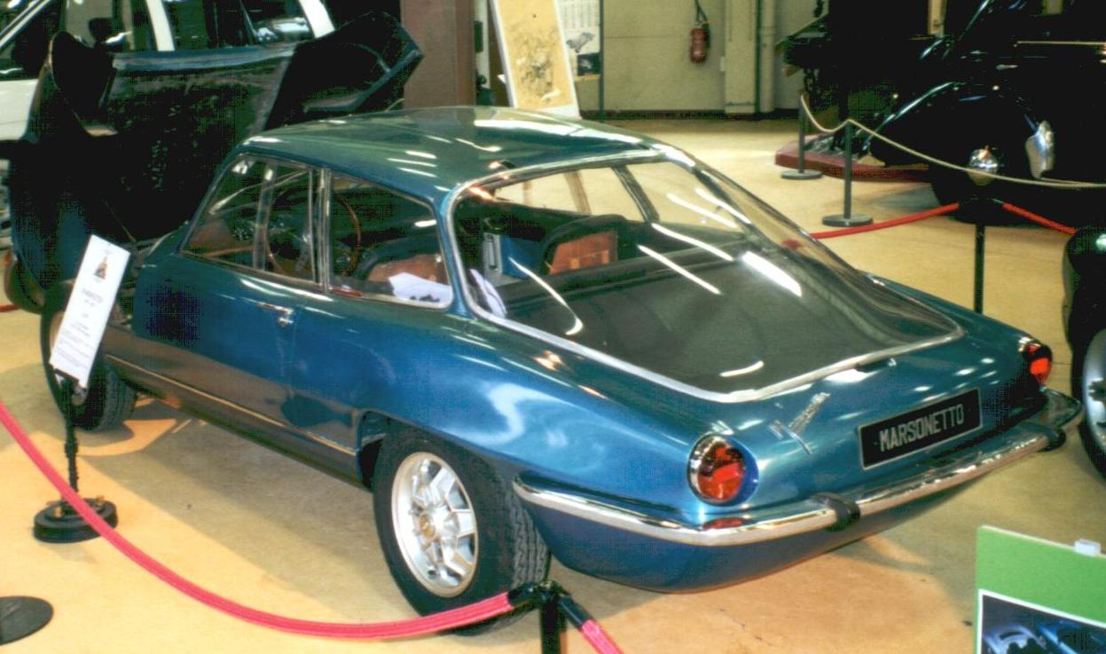 Marsonetto von 1968 (Country of origin: France)